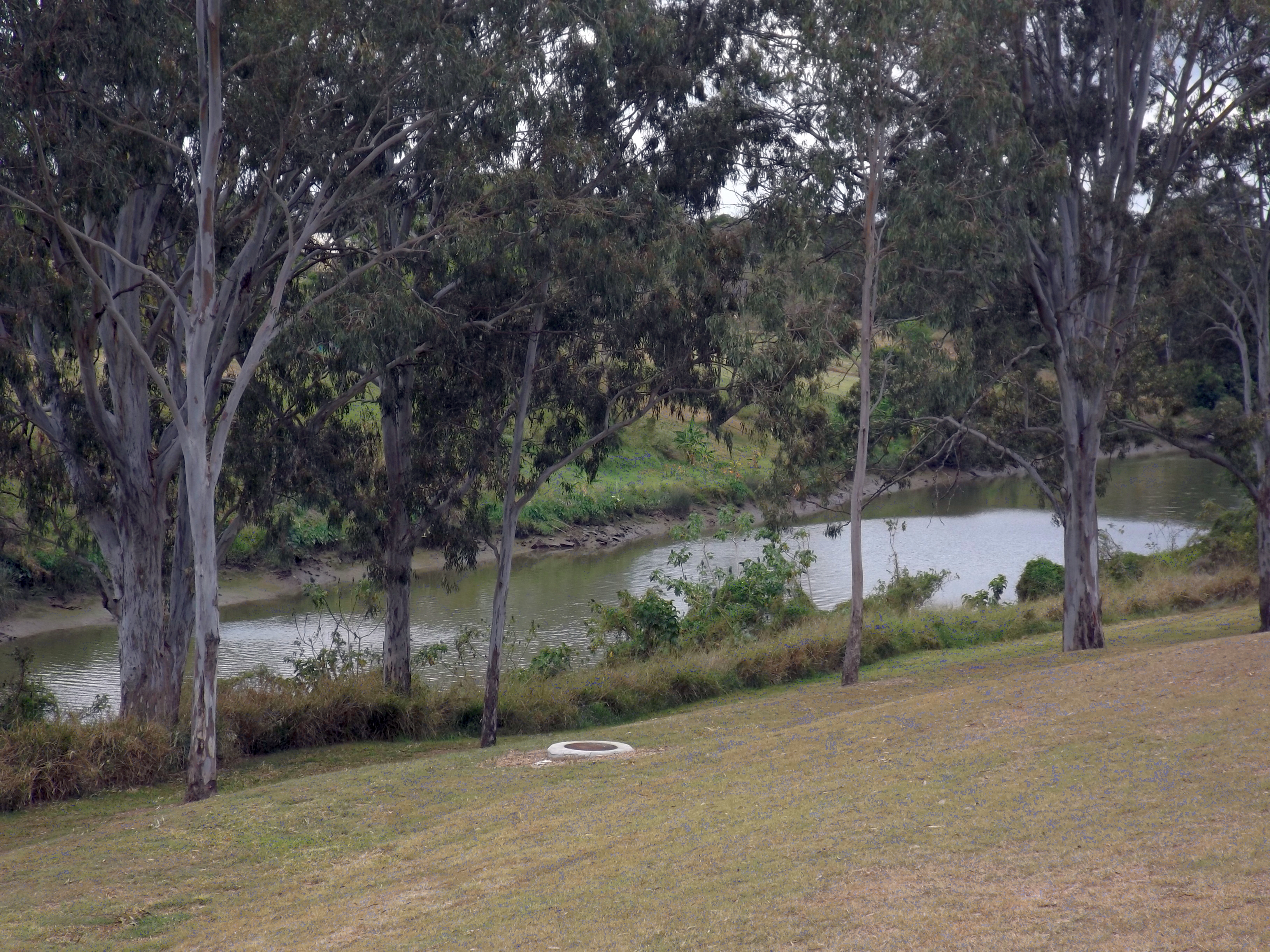 Photo of park and Bremer River along Mcleod Street in Basin Pocket, Ipswich, Queensland, Australia. Opposite bank of river is Moores Pocket.